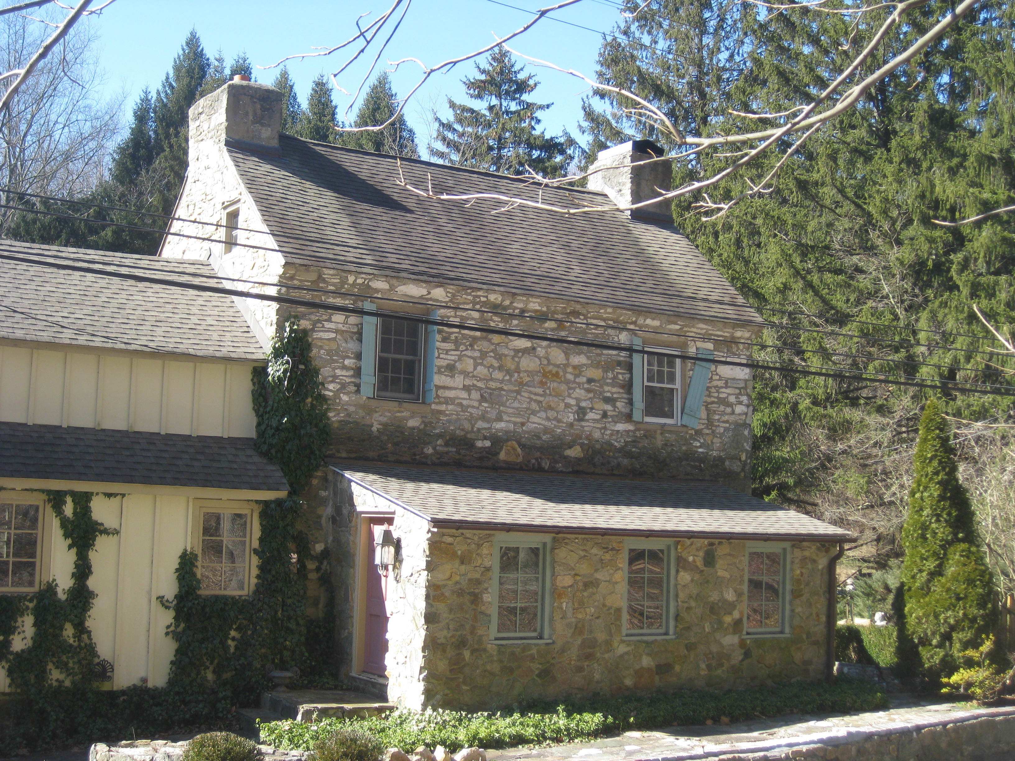 National Register of Historic Places Hayes Mill House (added 1985 - - #85002358) Also known as Site #49-4 Star Gazer Rd. , Newlin Twp. Historic Significance: Event, Architecture/Engineering Architect, builder, or engineer: Hayes,Mordecai Architectural Style: Other, Colonial Area of Significance: Industry, Architecture Period of Significance: 1850-1874, 1825-1849, 1800-1824, 1750-1799